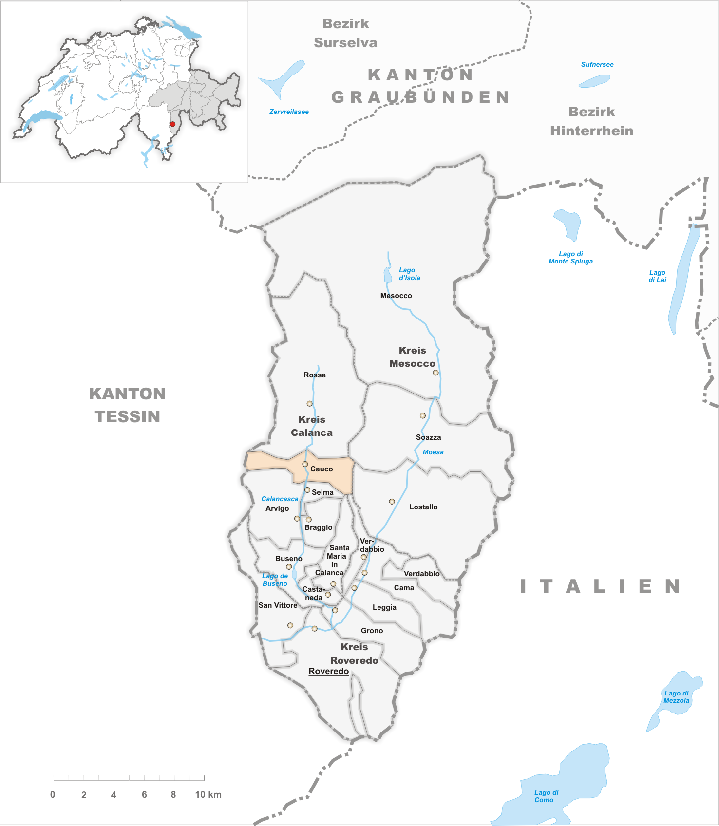 Municipality Cauco